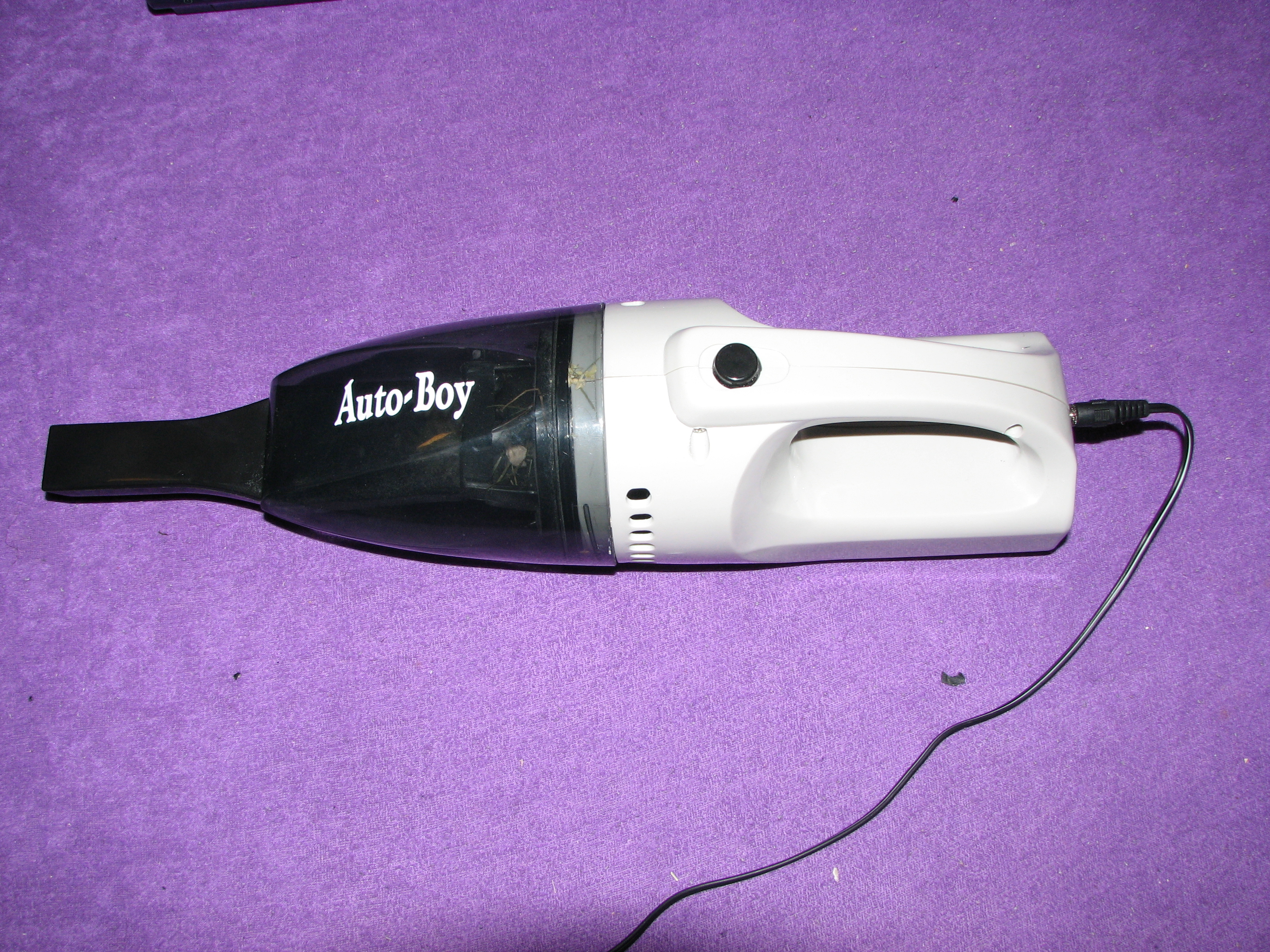 Small vacuum cleaner